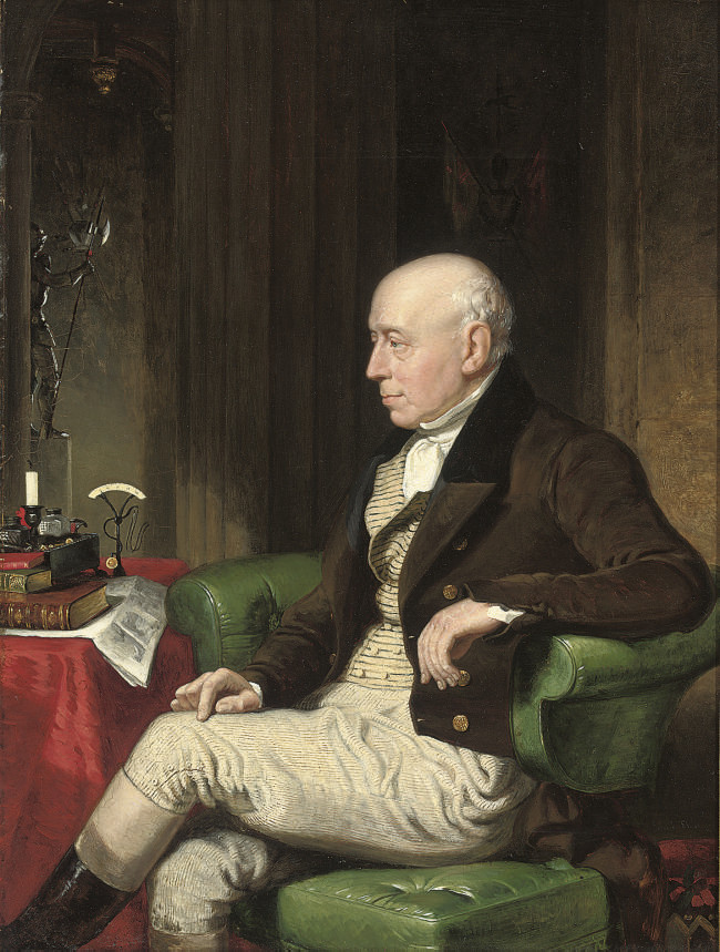 William Lowther, 1st Earl of Lonsdale circa 1830